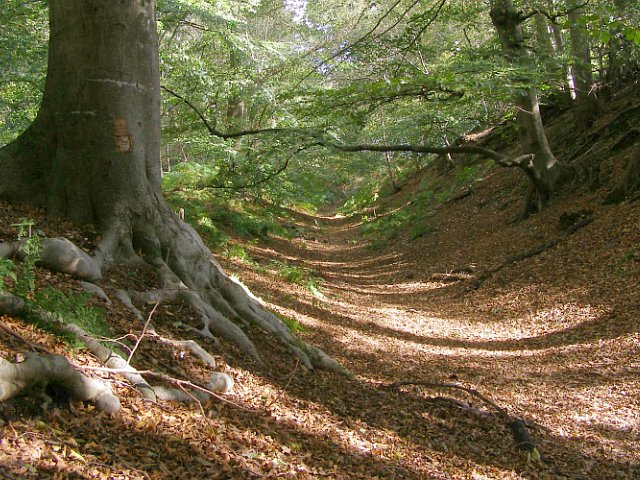 Ditch in the northern ramparts of Buckland Rings On the northern side of Buckland Rings, looking along the ditch between the inner rampart (right) and middle rampart (left). The outer rampart to the west and northwest of the camp no longer survives. The curved shadows of the tree trunks show how gently rounded the ditch is after 2000 years of infilling.